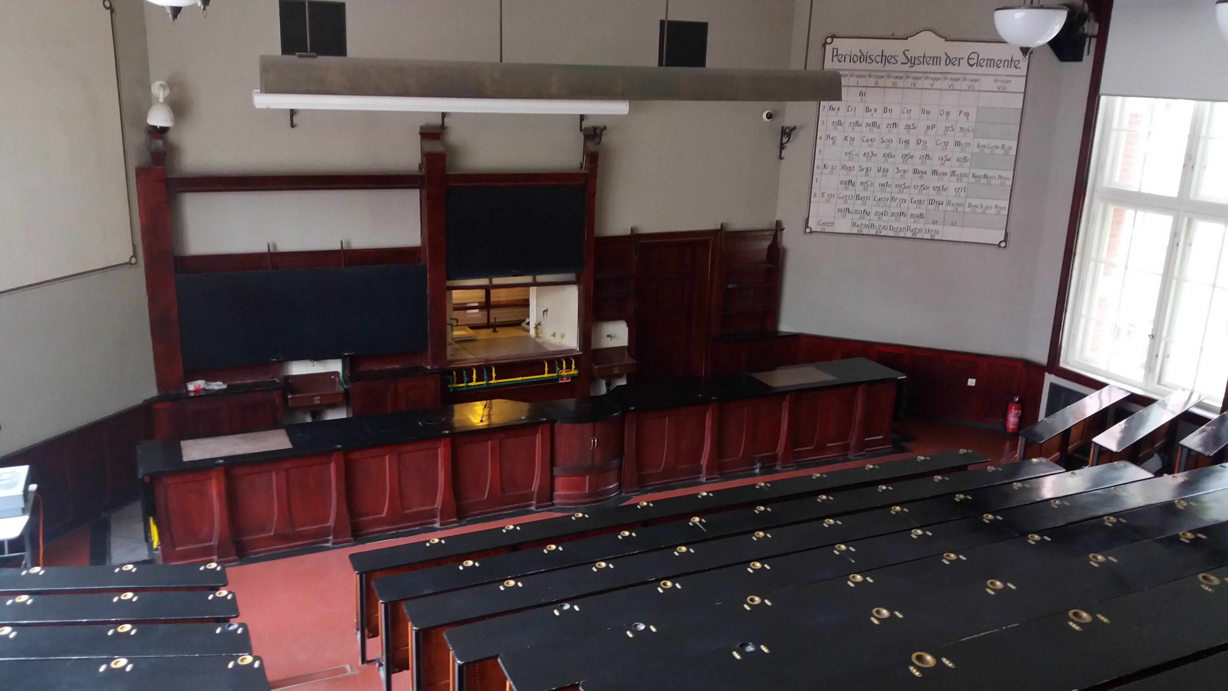 Auditorium of the Chemical Faculty of the Gdańsk University of Technology built in 1904 Visible seats for students, experimental table for the lecturer, laboratory fume hood, periodic table of elements from the beginning of the 20th century on the wall